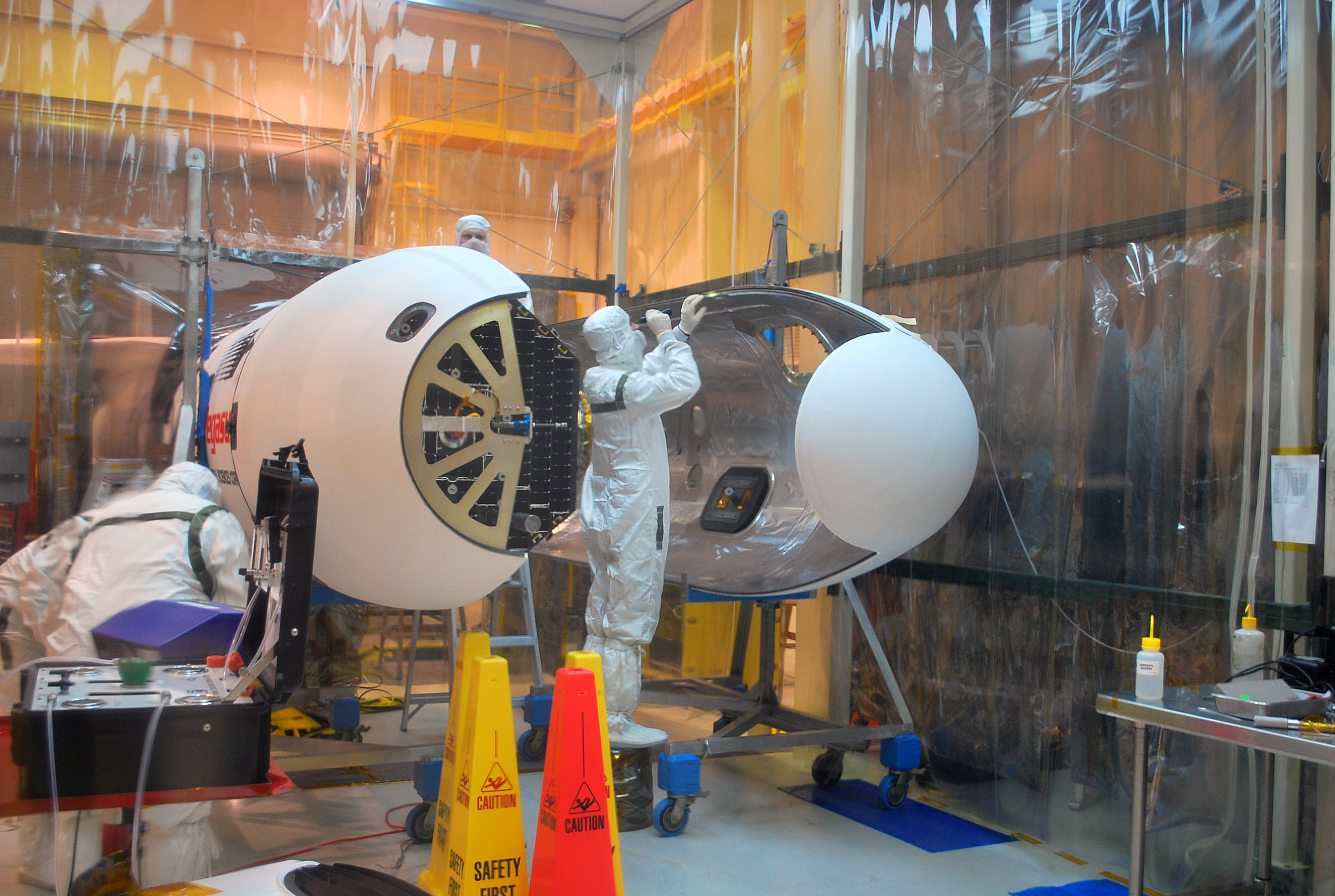 Vandenberg Air Force Base, Calif. – Inside a protected clean room tent on Vandenberg Air Force Base in California, a worker (right) examines part of the second half of the fairing to be installed around NASA’s Interstellar Boundary Explorer, or IBEX, spacecraft. The fairing is a molded structure that fits flush with the outside surface of the rocket and forms an aerodynamically smooth nose cone, protecting the spacecraft during launch and ascent. The IBEX satellite will make the first map of the boundary between the Solar System and interstellar space. IBEX is targeted for launch from the Kwajalein Atoll, a part of the Marshall Islands in the Pacific Ocean, on Oct. 19. IBEX will be launched aboard a Pegasus rocket dropped from under the wing of an L-1011 aircraft flying over the Pacific Ocean. The Pegasus will carry the spacecraft approximately 130 miles above Earth and place it in orbit. Photo credit: NASA/Randy Beaudoin, VAFB